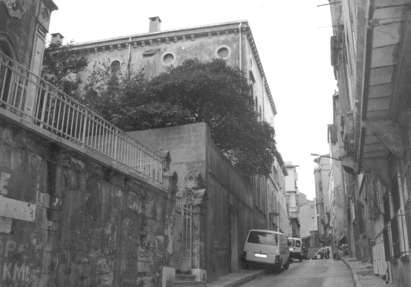 German protestant church in Beyoğlu, Istanbul, Turkey.